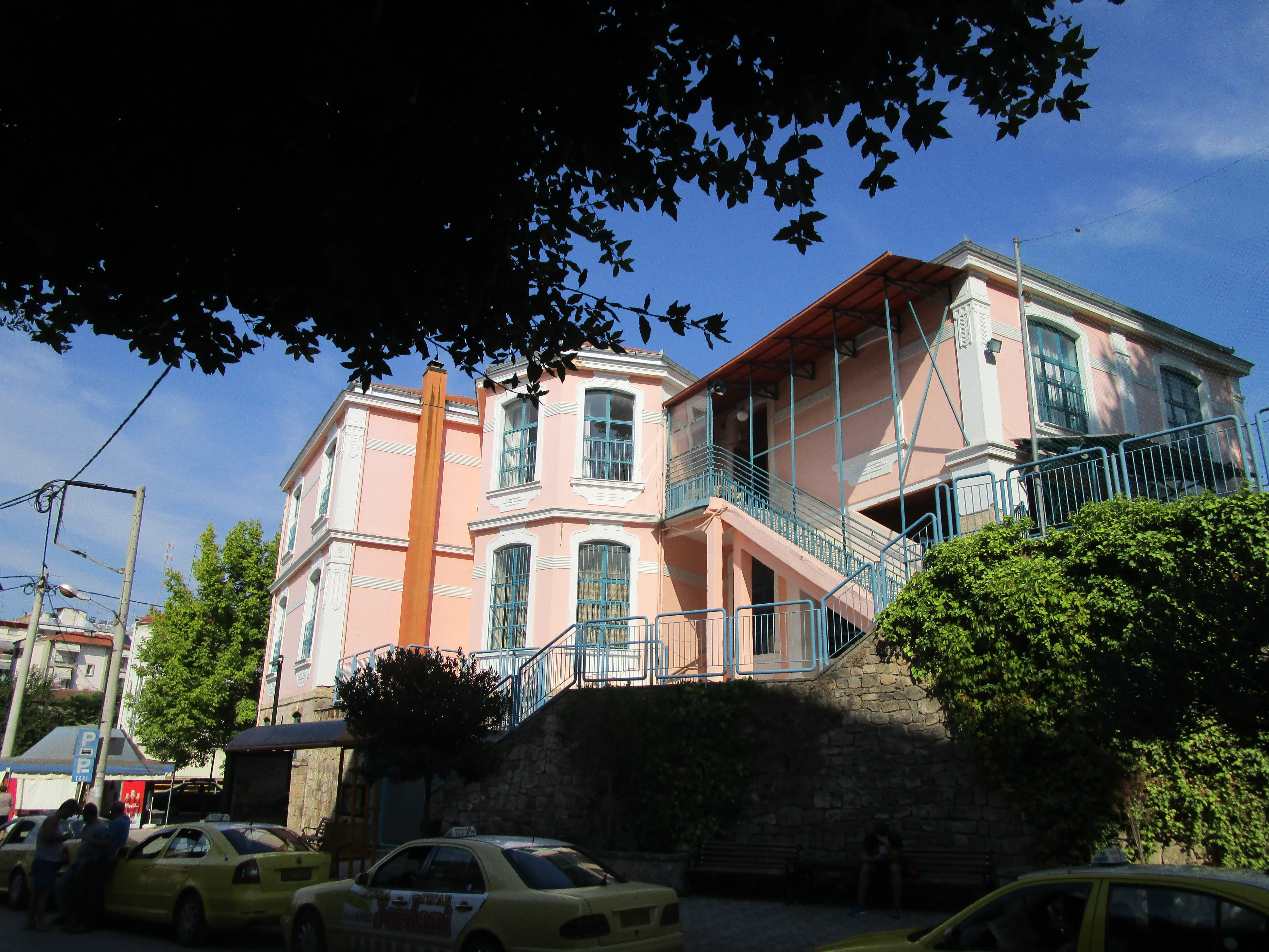 Ottoman school, Ber